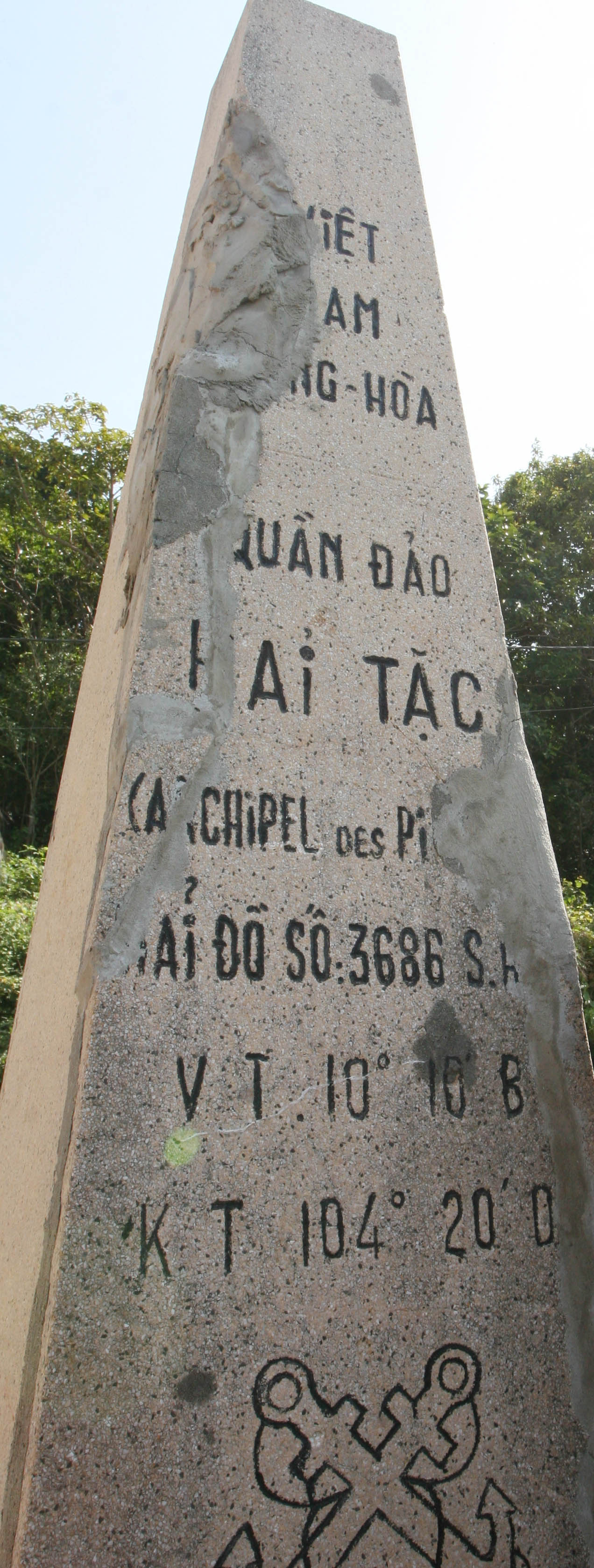 Old stele erected by South Vietnam on Hon Doc, one of 16 islands forming Ha Tien Islands (former name: Pirate Islands or Hai Tac Islands), Kien Giang Province, Vietnam.